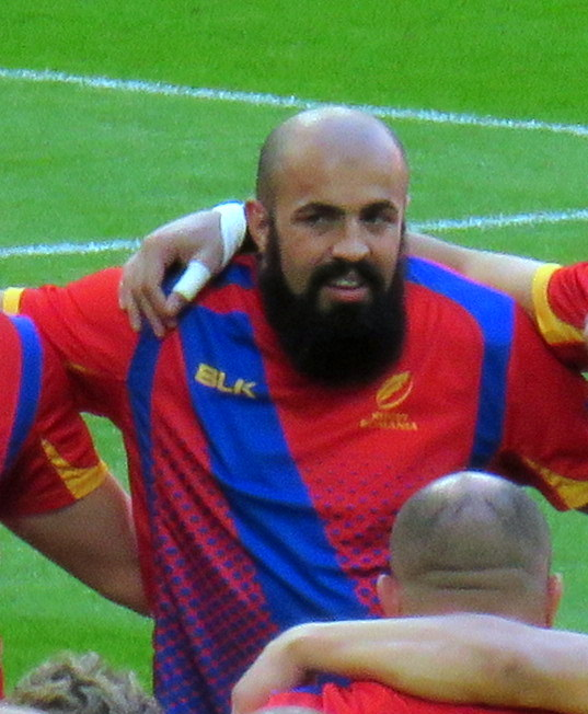 pre-match warm-up before 2015 Rugby World Cup game Ireland vs Romania at Wembley Stadium, London.